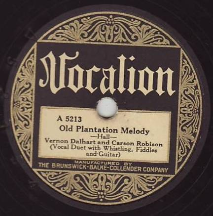 Old Plantation Melody by Vernon Dalhart & Carson Robison, Vocalion 1927.